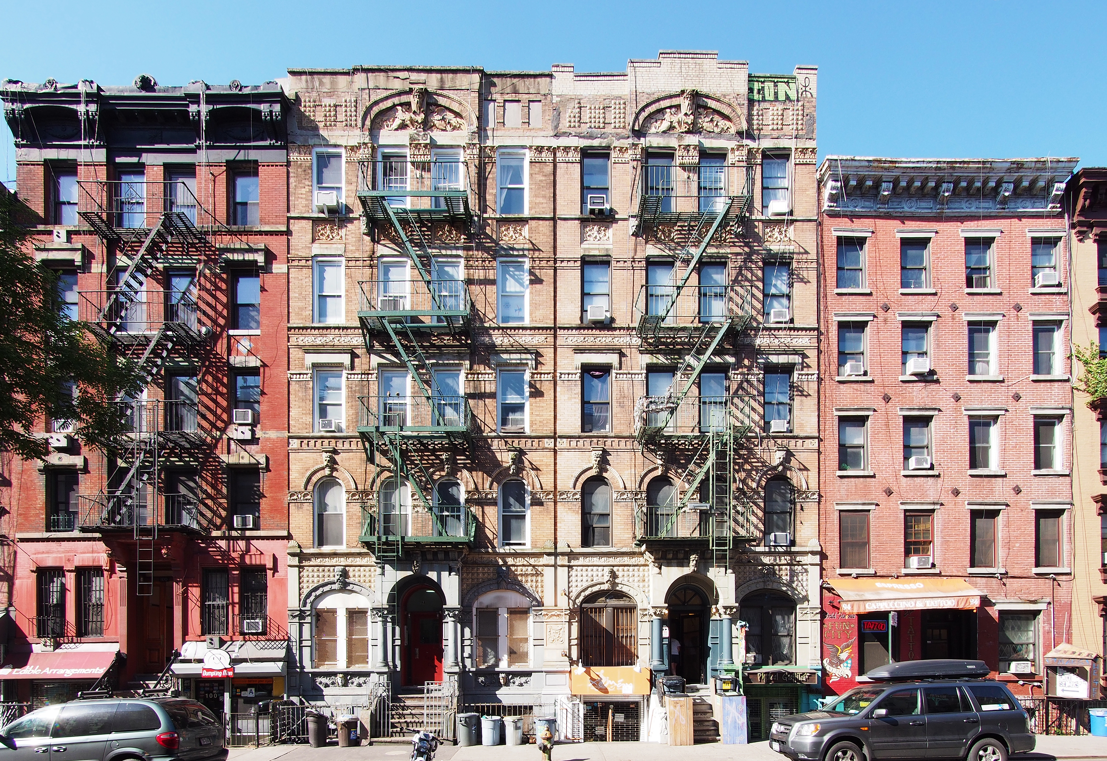 96 and 98 East 8th Street / St. Mark's Place (Manhattan)